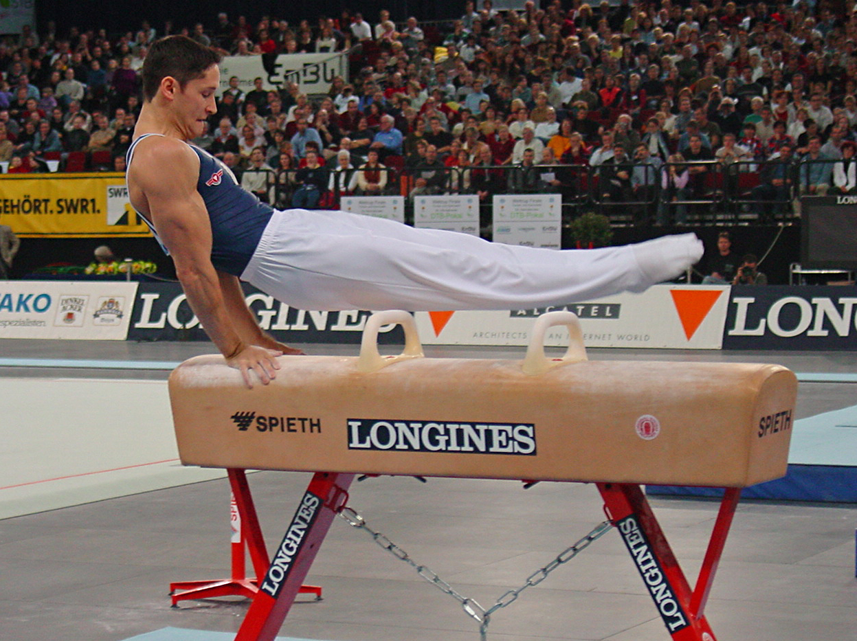 Thomas Zimmermann/Vorarlberg/Austria, World-Cup Finale 2002, Stuttgart